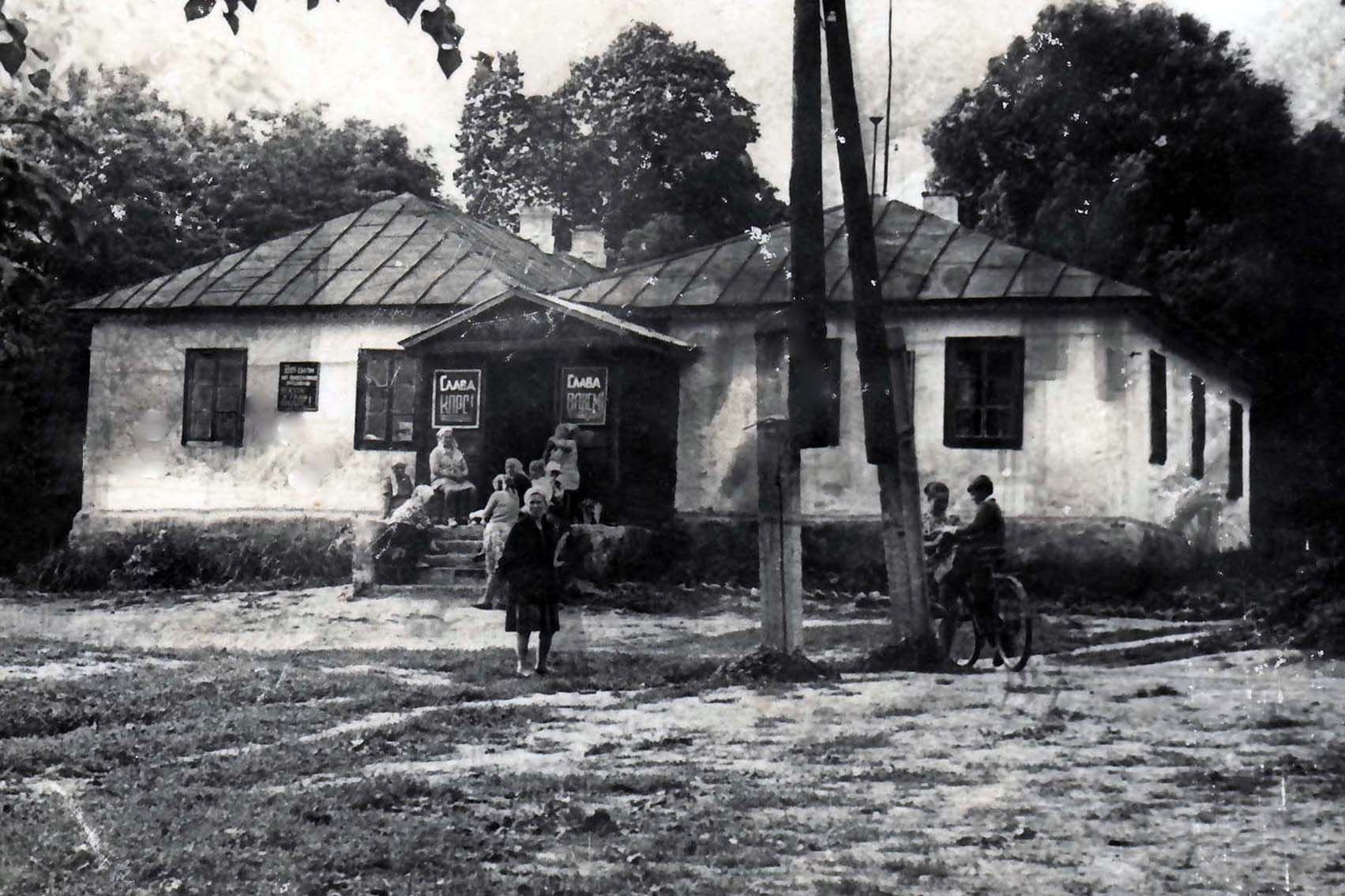 Немиринецька школа